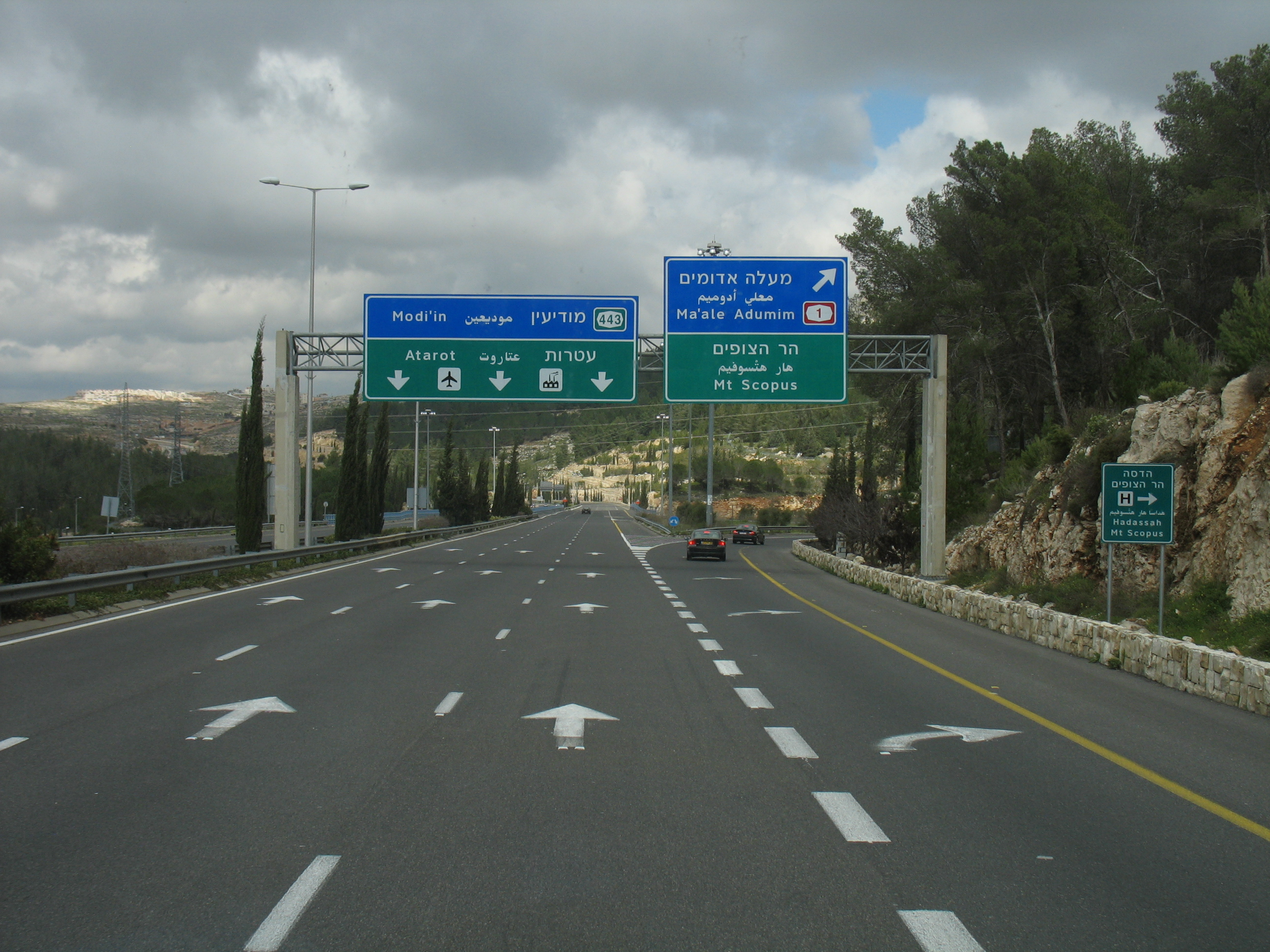 Israel/Palestine Highway 50 (Sderot Begin) (formerly Route 404) northward approaching Yigael Yadin Interchange.